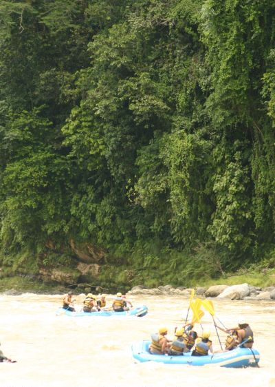 This is a photo of the Pacaure River in Costa Rica. It was originally posted on licensed as public domain. I am transferring this file from its location on the English Wikipedia here.